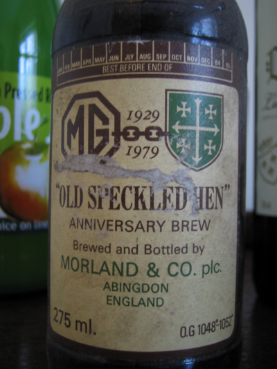 275 ml bottle of Old Speckled Hen, brewed by Morland Brewery in Abingdon-on-Thames